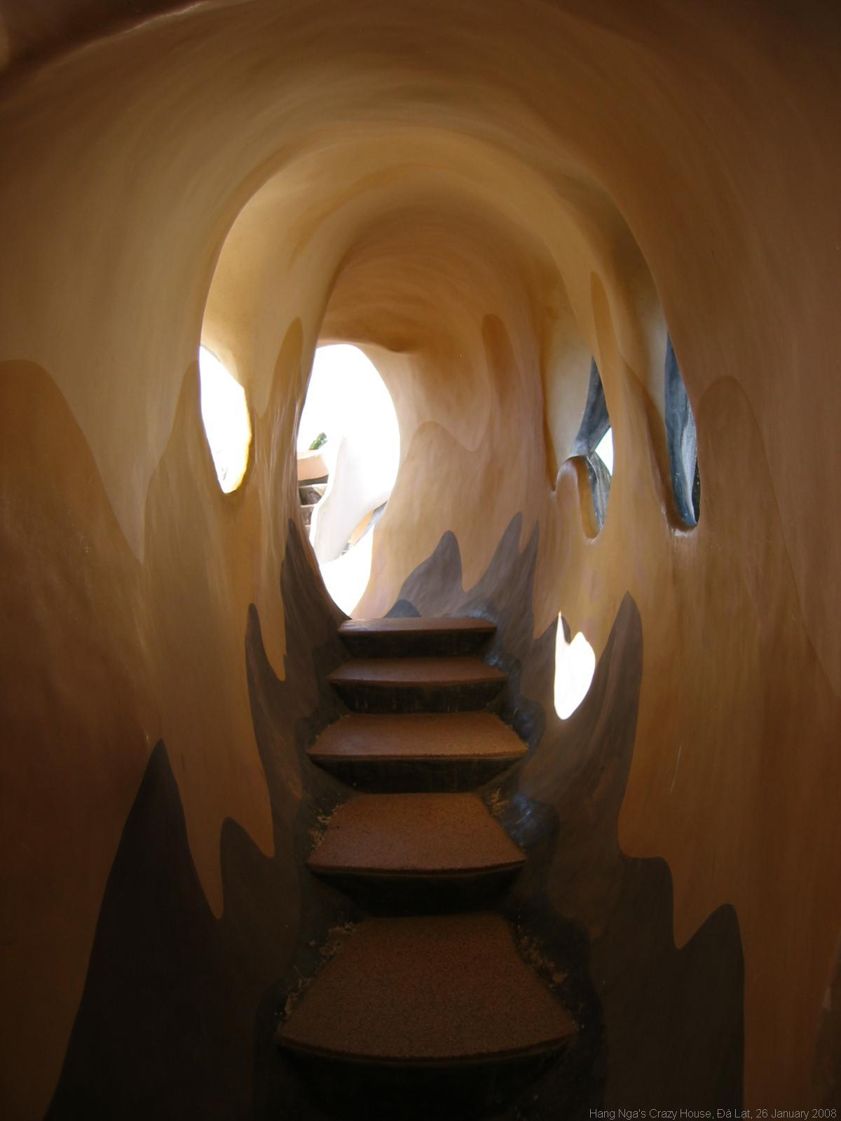 Hang Nga's "Crazy House" in Dalat, Vietnam